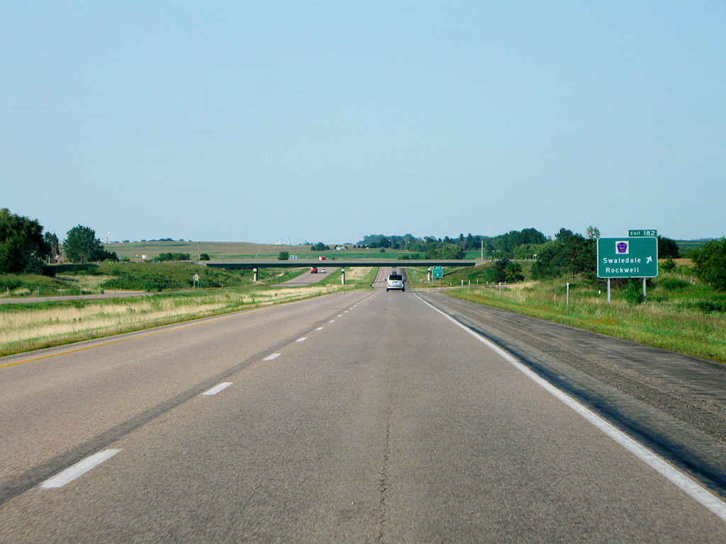 A view of Exit 182 from the northbound lanes of Interstate 35 in Cerro Gordo county, Iowa. The town of Swaledale is about one mile to the east.